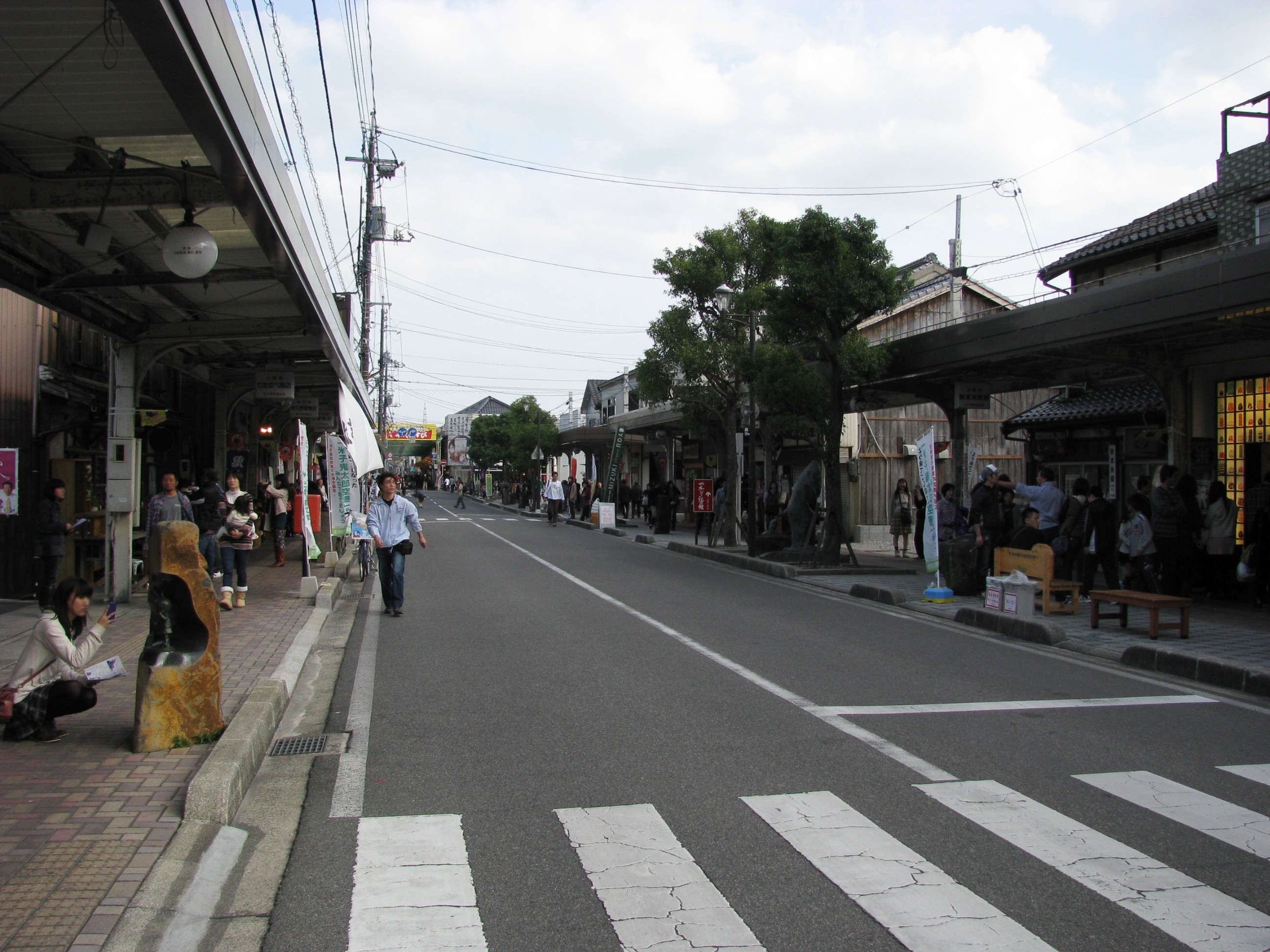 The Mizuki Shigeru Road. This place is Sakaiminato, Tottori Prefecture, Japan.